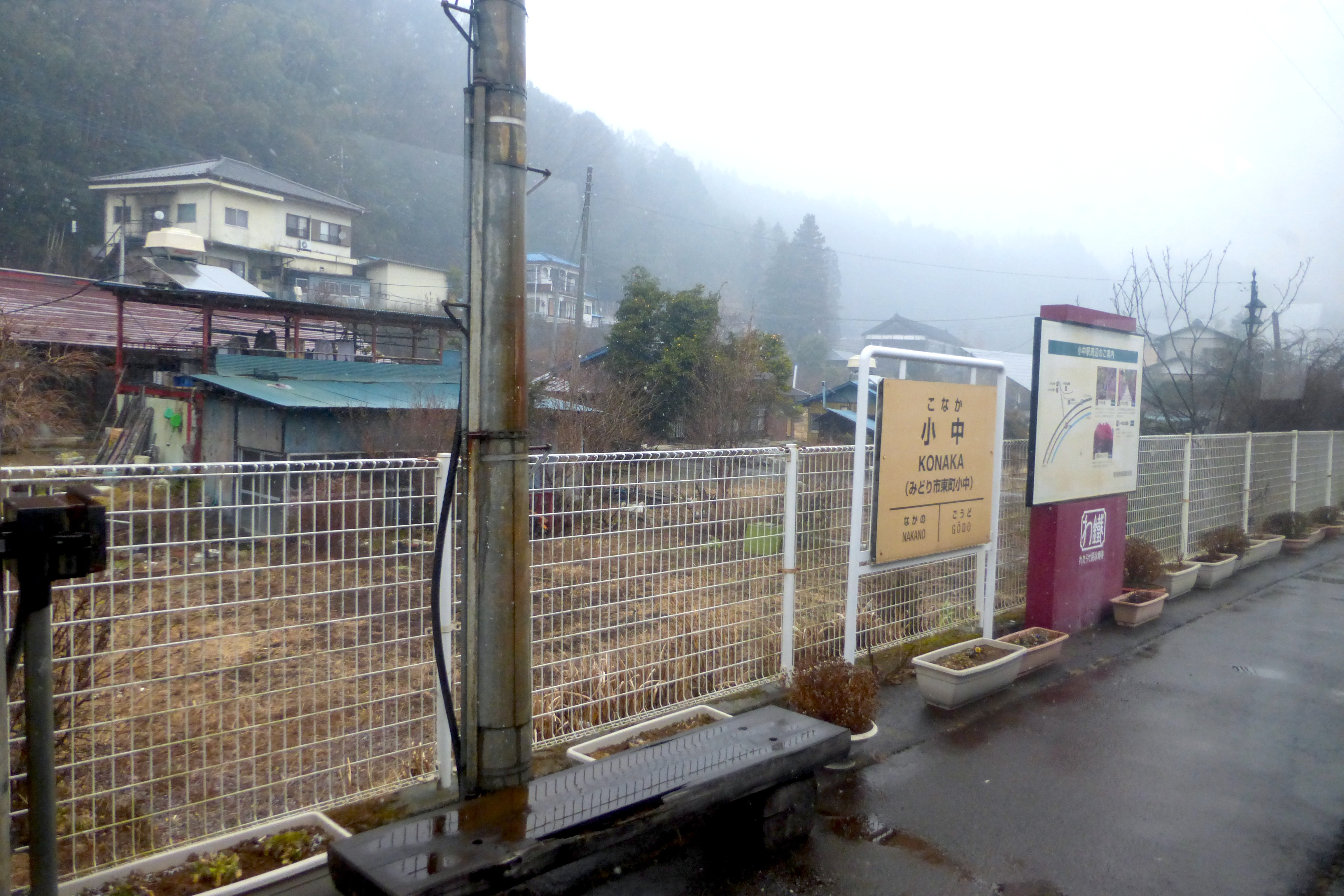 Konaka Station (小中駅 Konaka-eki) platform and sign, snowy/rainy day.